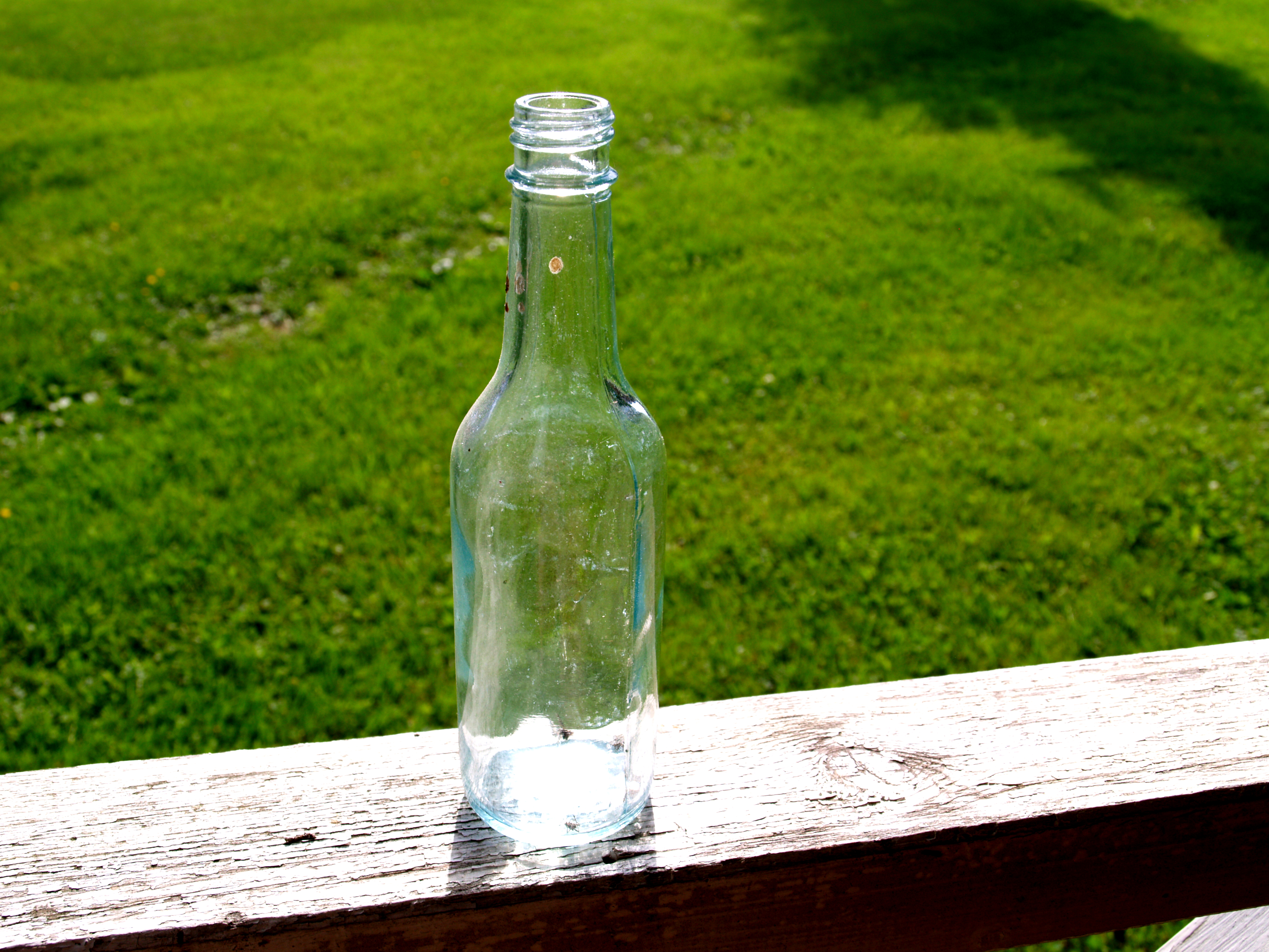 Clear empty glass bottle.